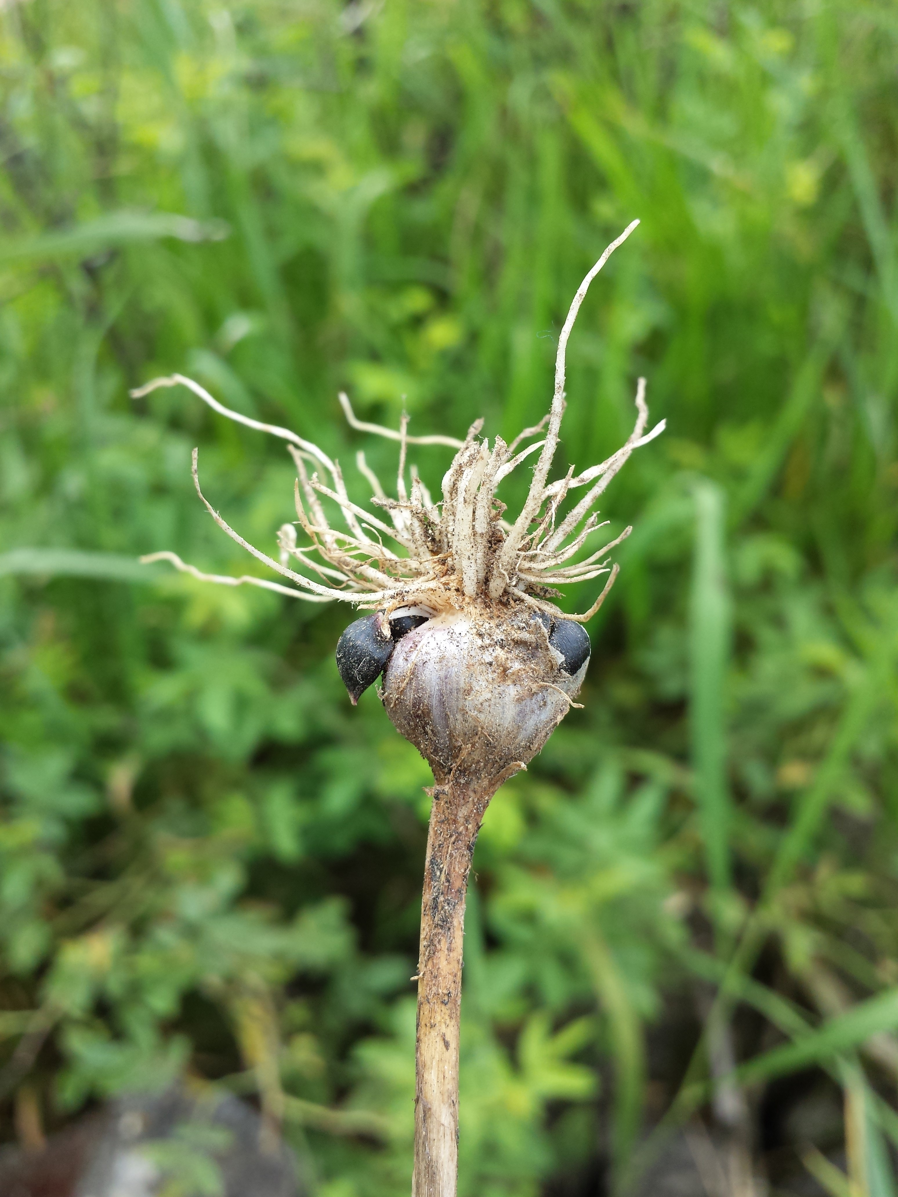 Bulb with new bulbs Taxonym: Allium rotundum ss Fischer et al. EfÖLS 2008 ISBN 978-3-85474-187-9 Location: Geißberg bei Eggendorf near Thale, district Hollabrunn, Lower Austria - ca. 300 m a.s.l. Habitat: lynchet